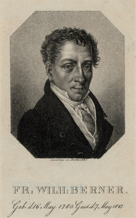 The portrait of German musician Friedrich Wilhelm Berner (1780-1827)